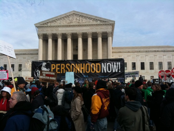 Personhood Now! banner in front of the United States Supreme Court during the 2010 March for Life.